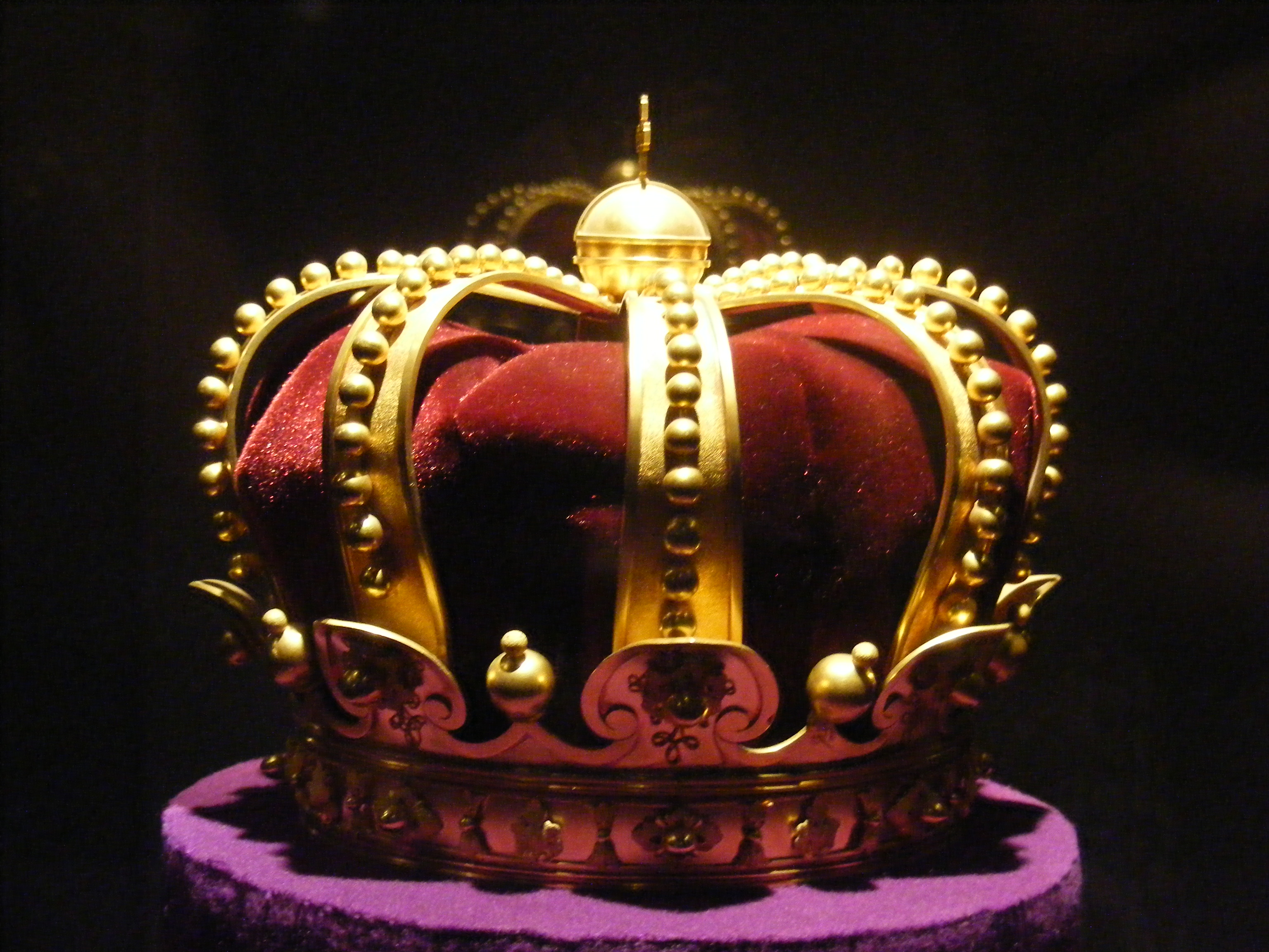 The crown of Carol I of Romania.